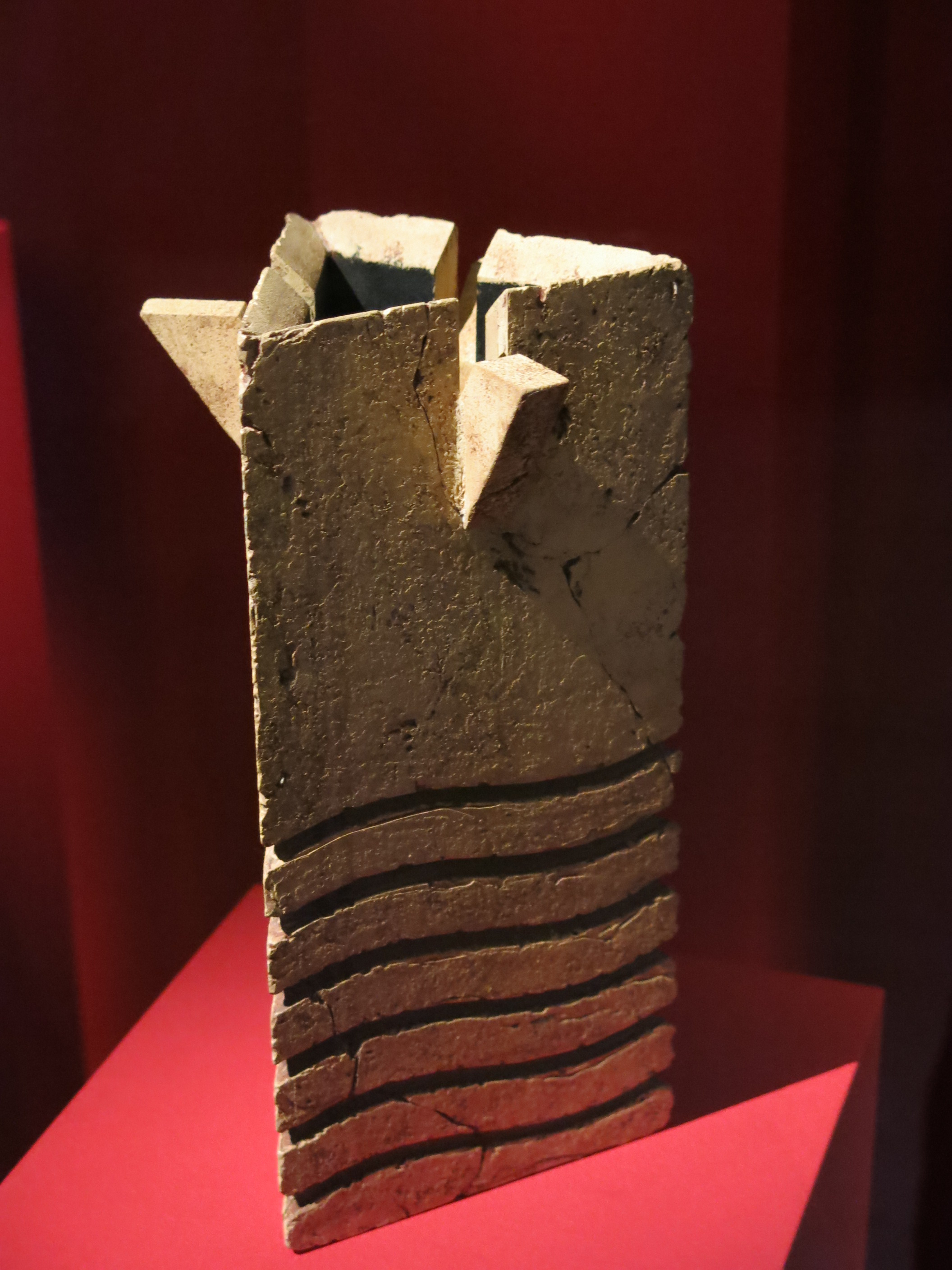 Stone used in the movie The Fifth Element. Exhibition Gaumont 120 years of movies in the 104 theater (Paris, France).